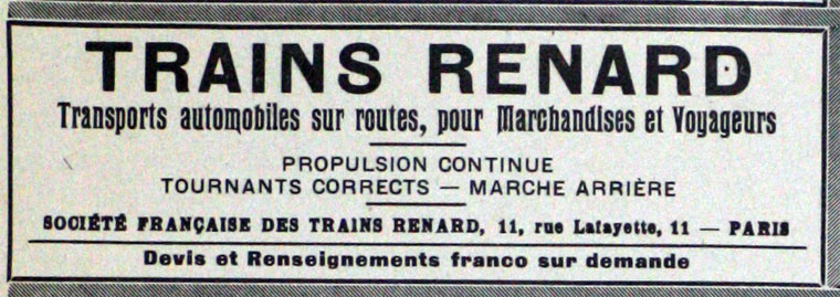 Société Francaise des Trains Renard ad. The company was established in 1906 in Paris, and dissolved in 1911. Their product was road train patented by Charles Renard in 1903. Few were built, most of them under licence by British Daimler.